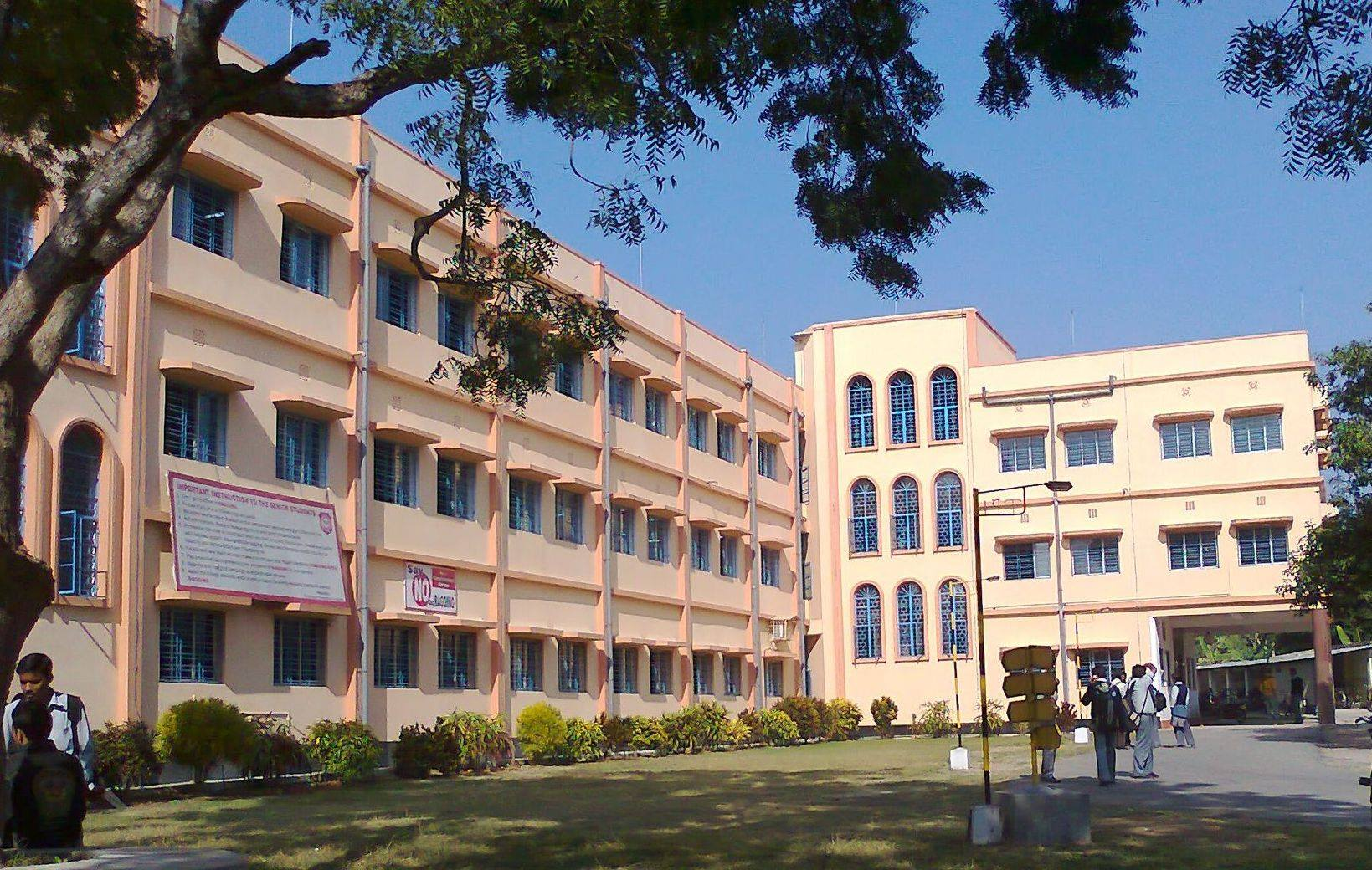 TPI Campus